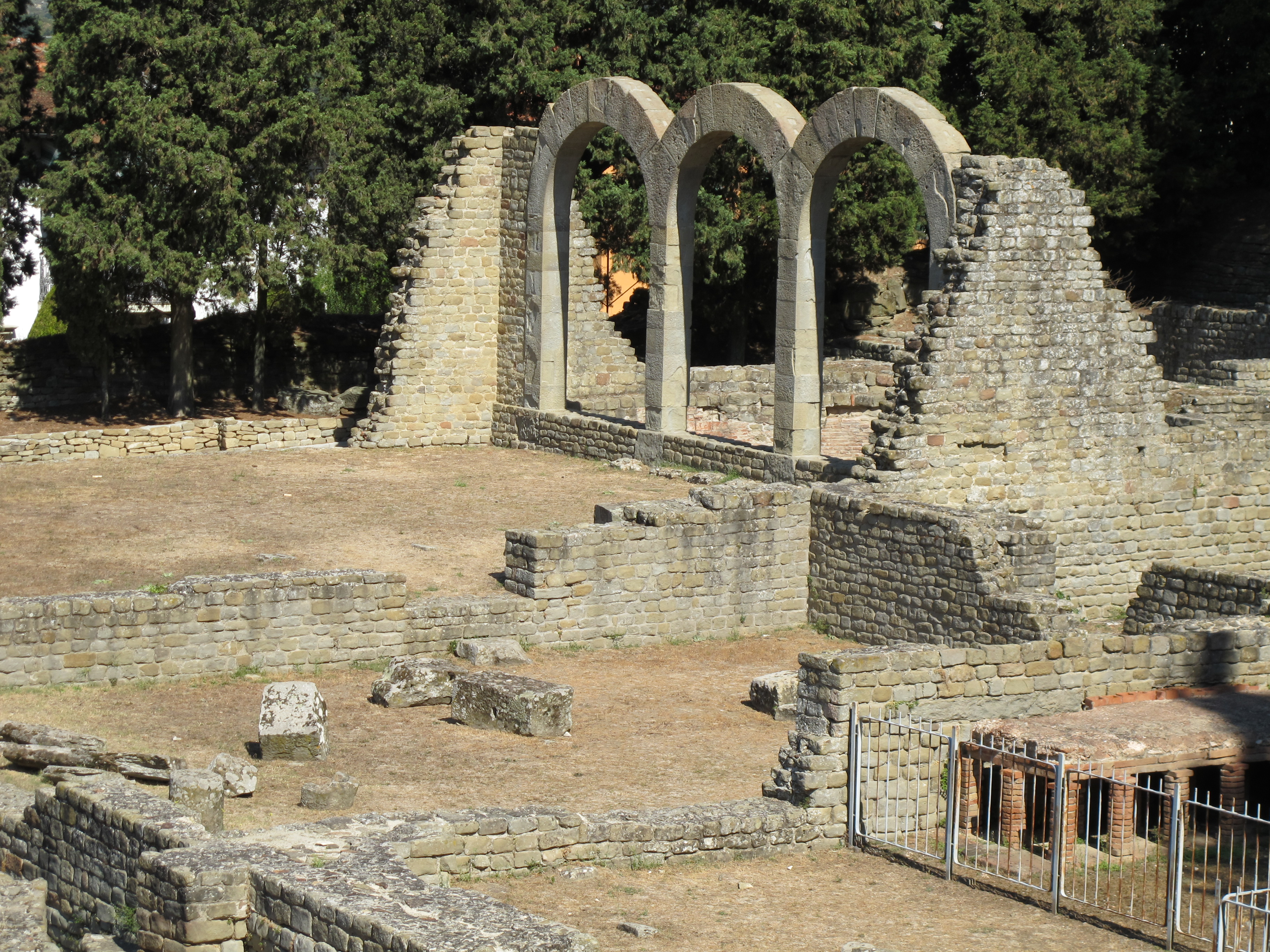 Roman bath at Fiesole, Italy: Caldarium and Frigidarium